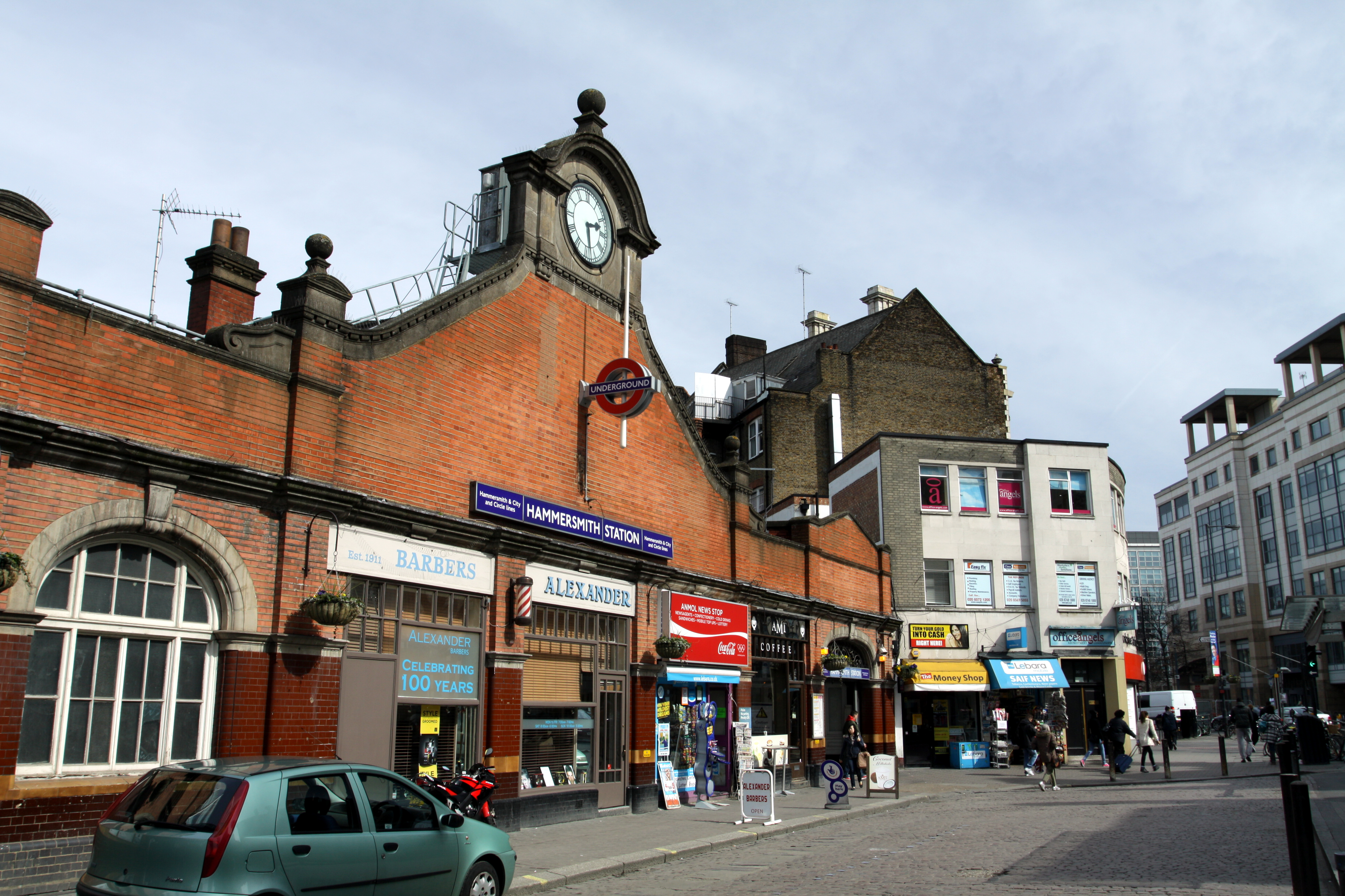 Hammersmith tube station (Hammersmith & City Line) in the London Borough of Hammersmith and Fulham, Great Britain. The making of this file was supported by Wikimedia UK.